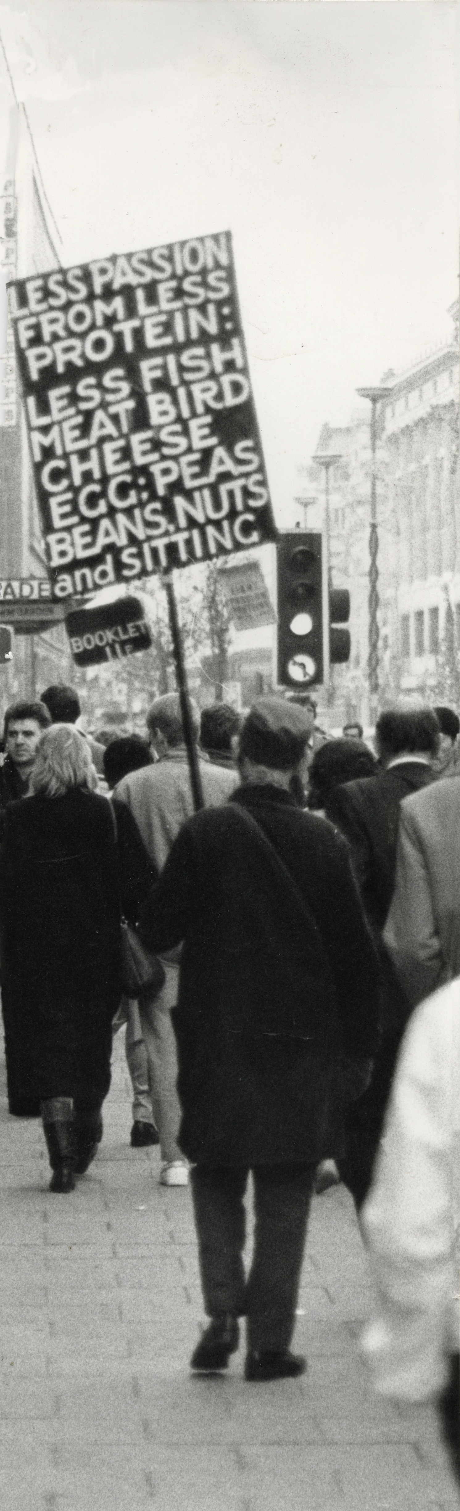 Stanley Green with his famous "Less Passion from Less Protein" placard.